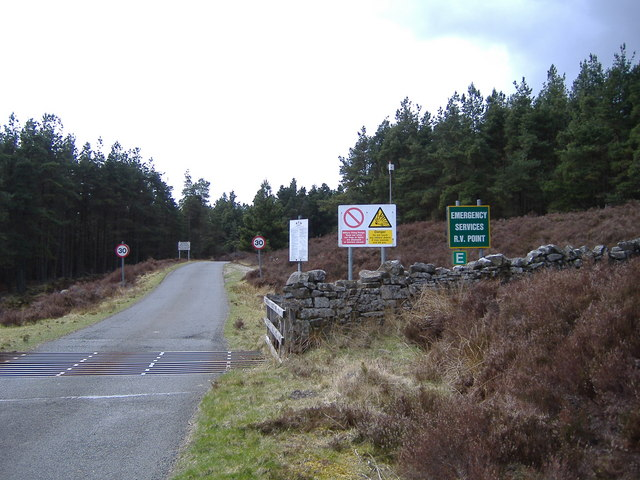 Who goes there? Entrance to the Otterburn Ranges near Holystone. There are no red flags flying so here we go.